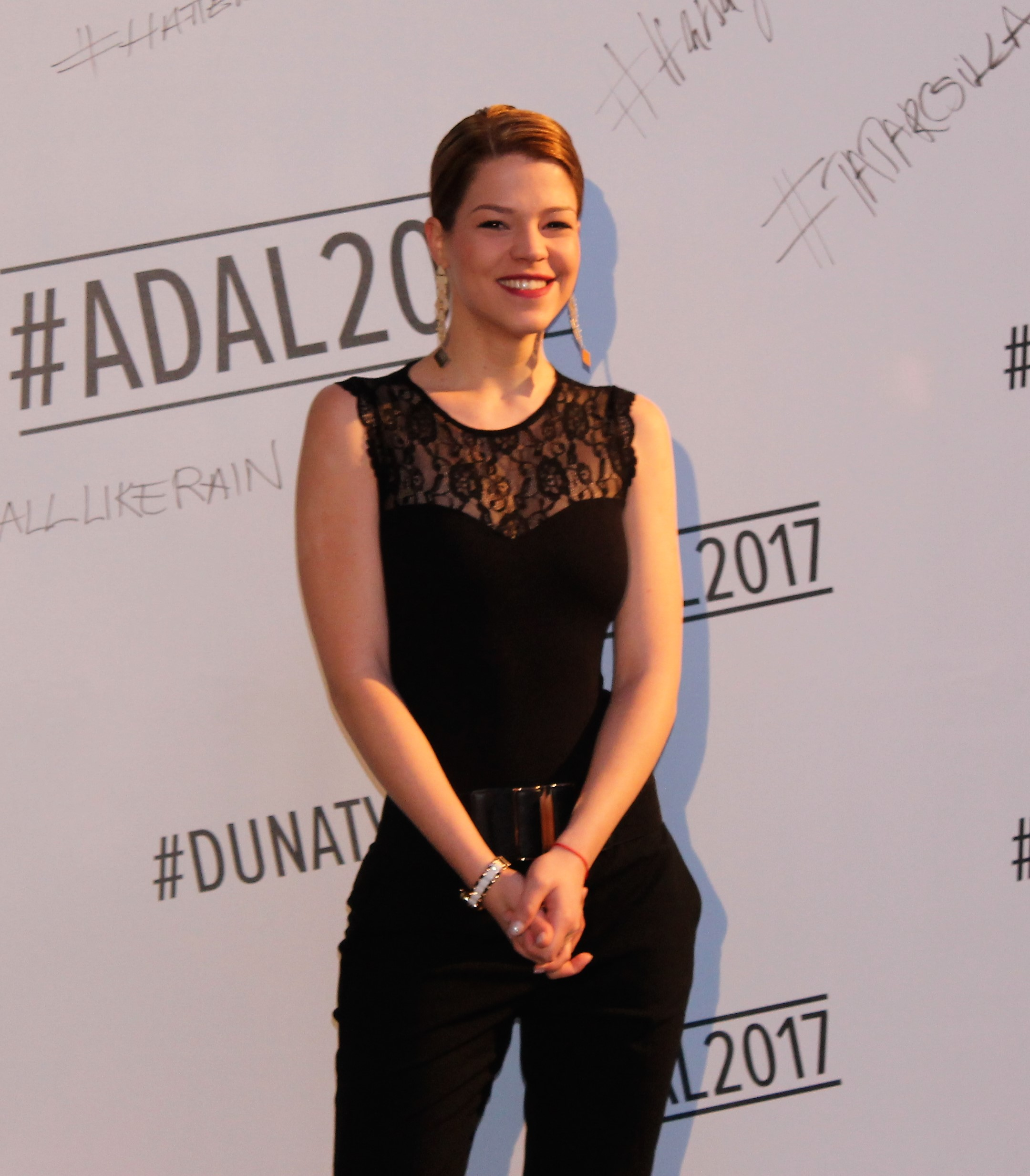 A Dal 2017 participant: Enikő Muri